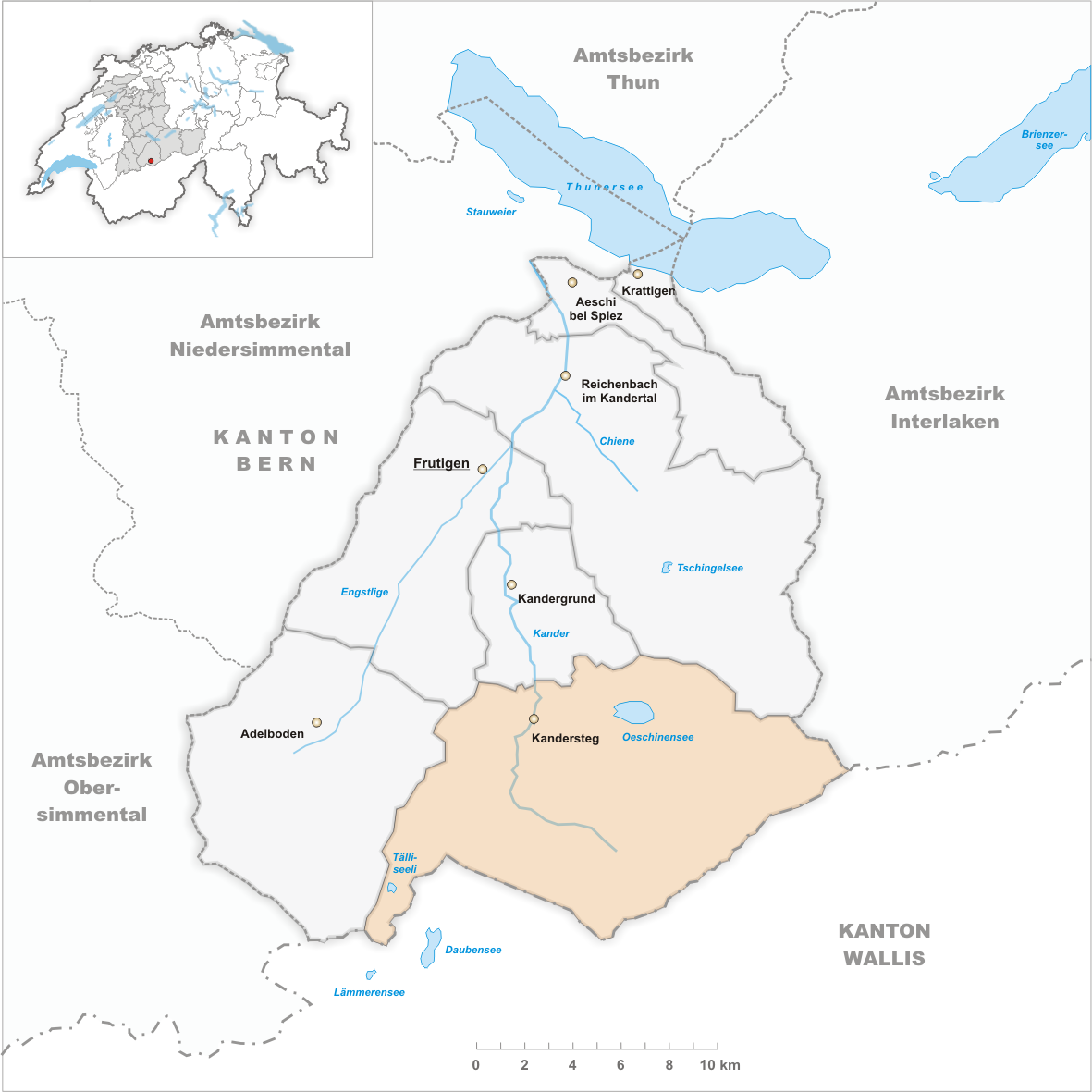 Municipality Kandersteg